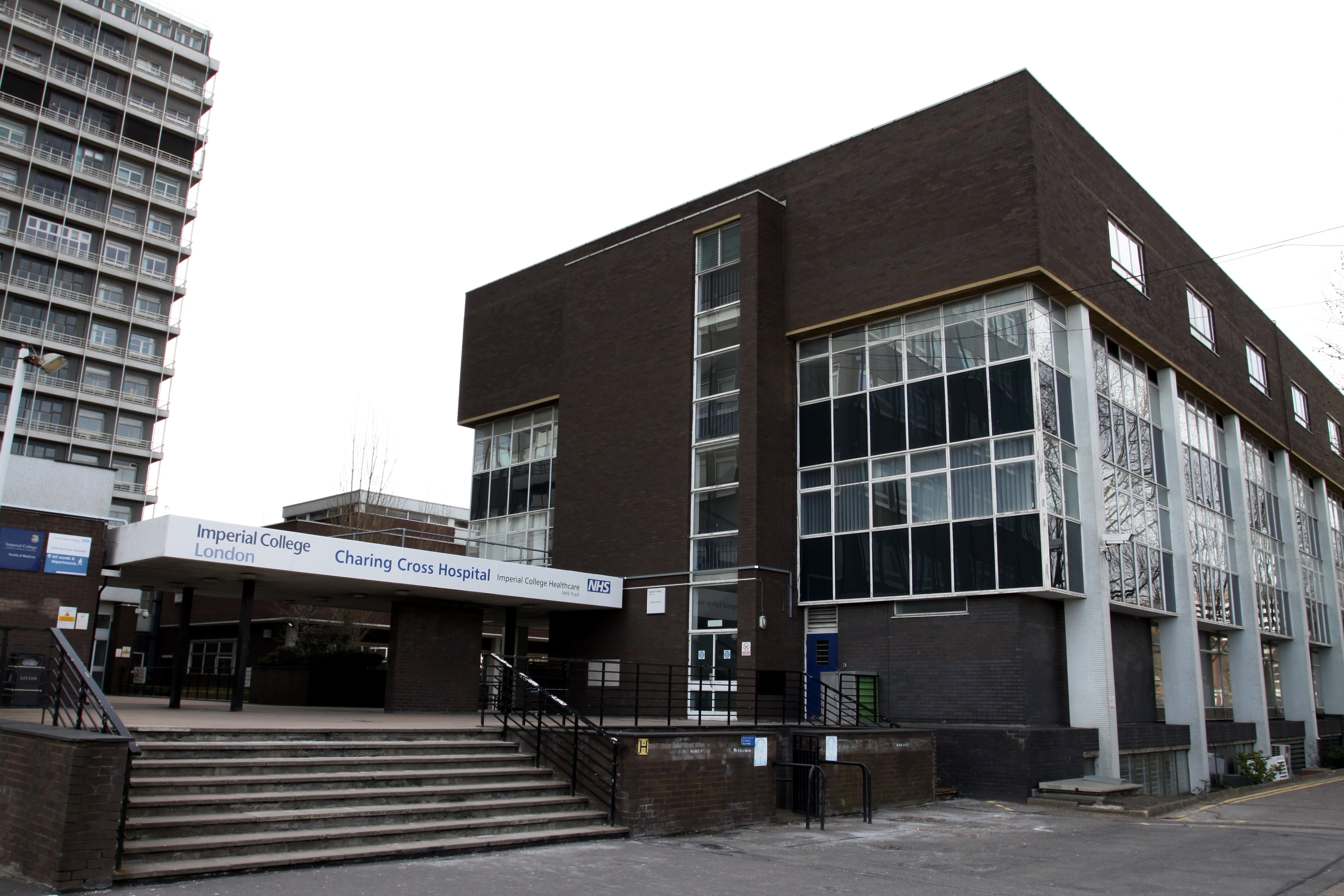 Charing Cross Hospital in the London Borough of Hammersmith and Fulham, London, Great Britain. The making of this file was supported by Wikimedia UK.